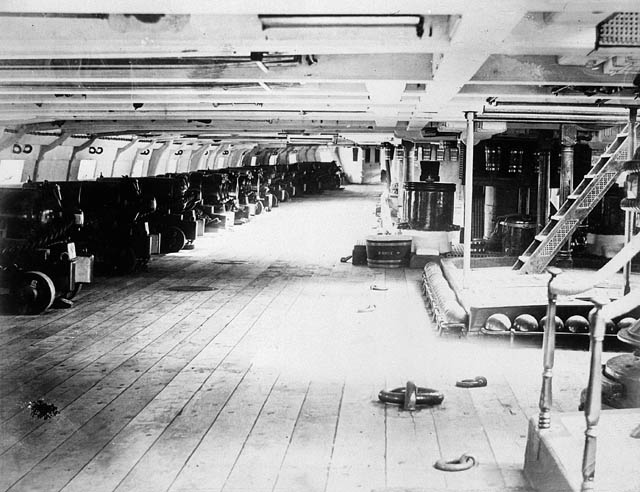 Photograph of gun deck of British Constance class frigate HMS Sutlej.